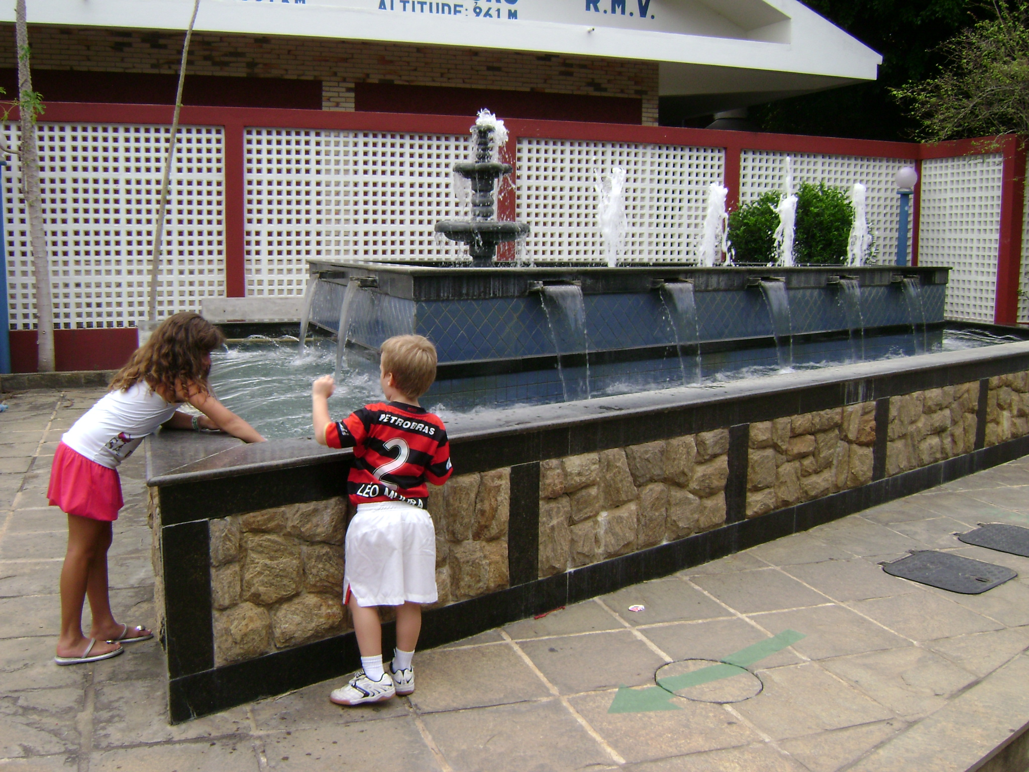 Fonte de água em Grussaí (São João da Barra), estado de Rio de Janeiro, Brazil.